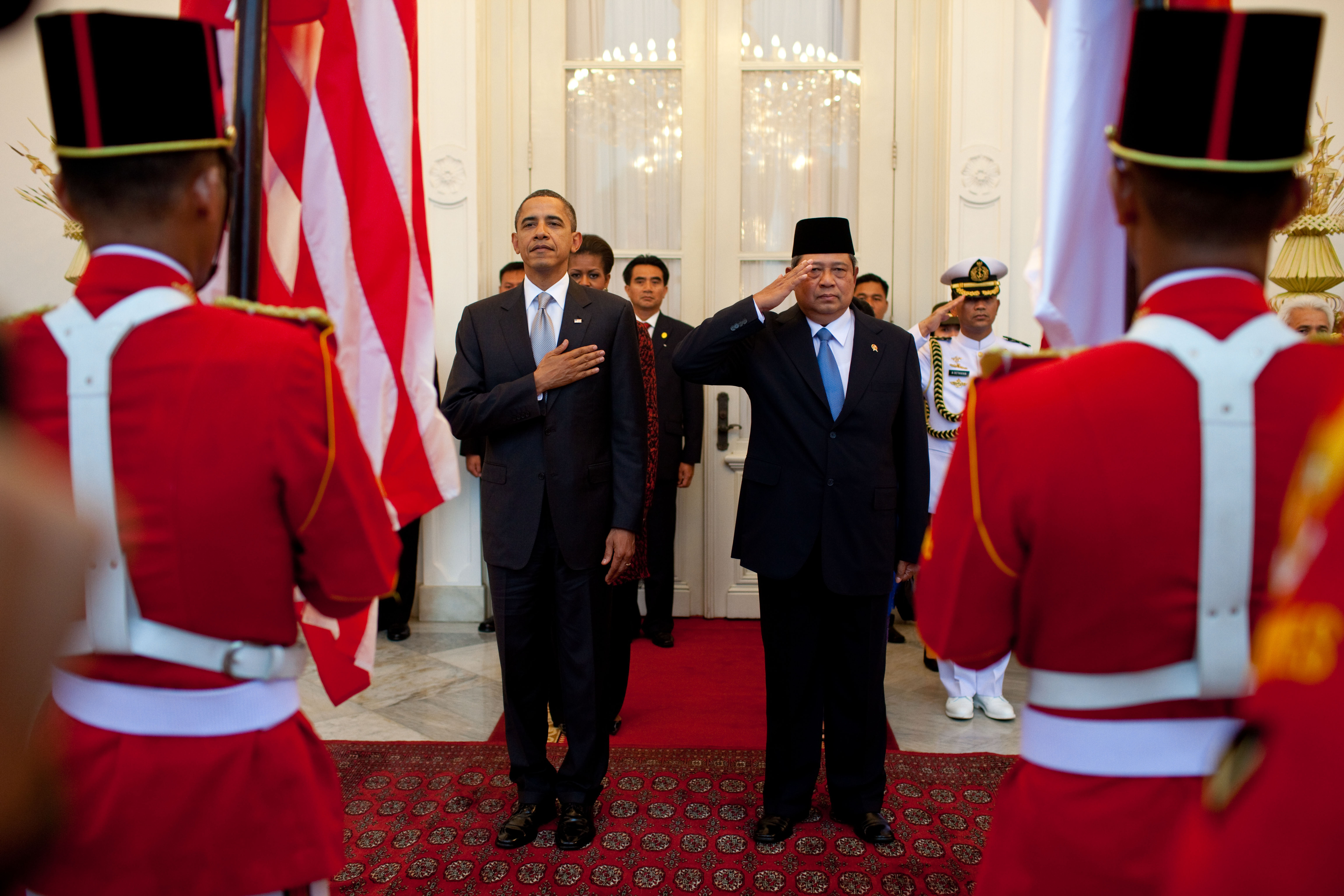 President Barack Obama and Indonesia's President Susilo Bambang Yudhoyono participate in the arrival ceremony at the Istana Merdeka State Palace in Jakarta, Indonesia, Nov. 9, 2010. (Official White House Photo by Pete Souza) This official White House photograph is in the public domain from a copyright perspective, so while restrictions such as personality or privacy rights may apply, in general, manipulations are allowed.